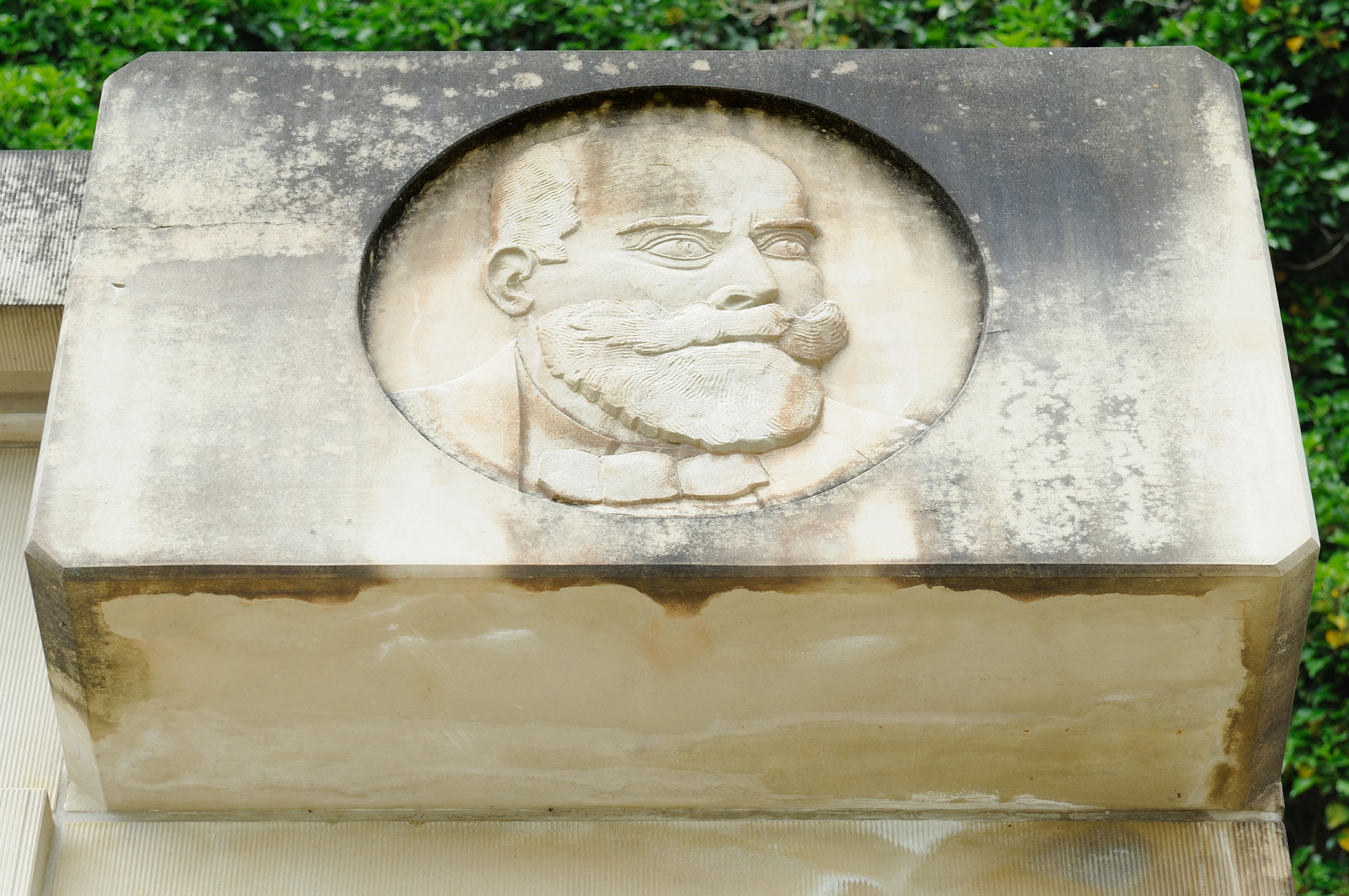 Portrait of Paul Eyschen (1841-1915) on the Paul Eyschen Monument at Stadtbredimus, Moselle valley, Luxembourg